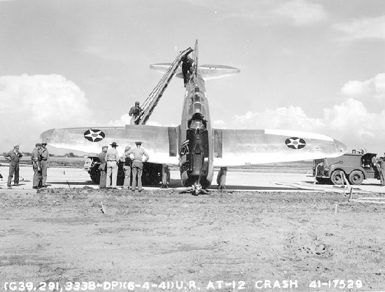 Republic AT-12 Guardsman (USAAF 41-17529) aka - NX55539, Planes of Fame Air Museum, Chino, California